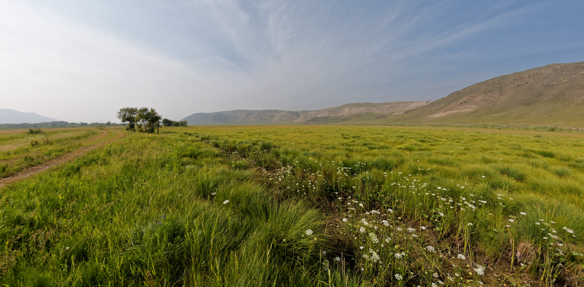 The Tazheran Steppe